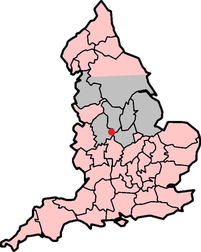 The location of the Battle of Burton Bridge in 1322. Areas loyal to Edward II are shown in pink, those to the Earl of Lancaster in grey